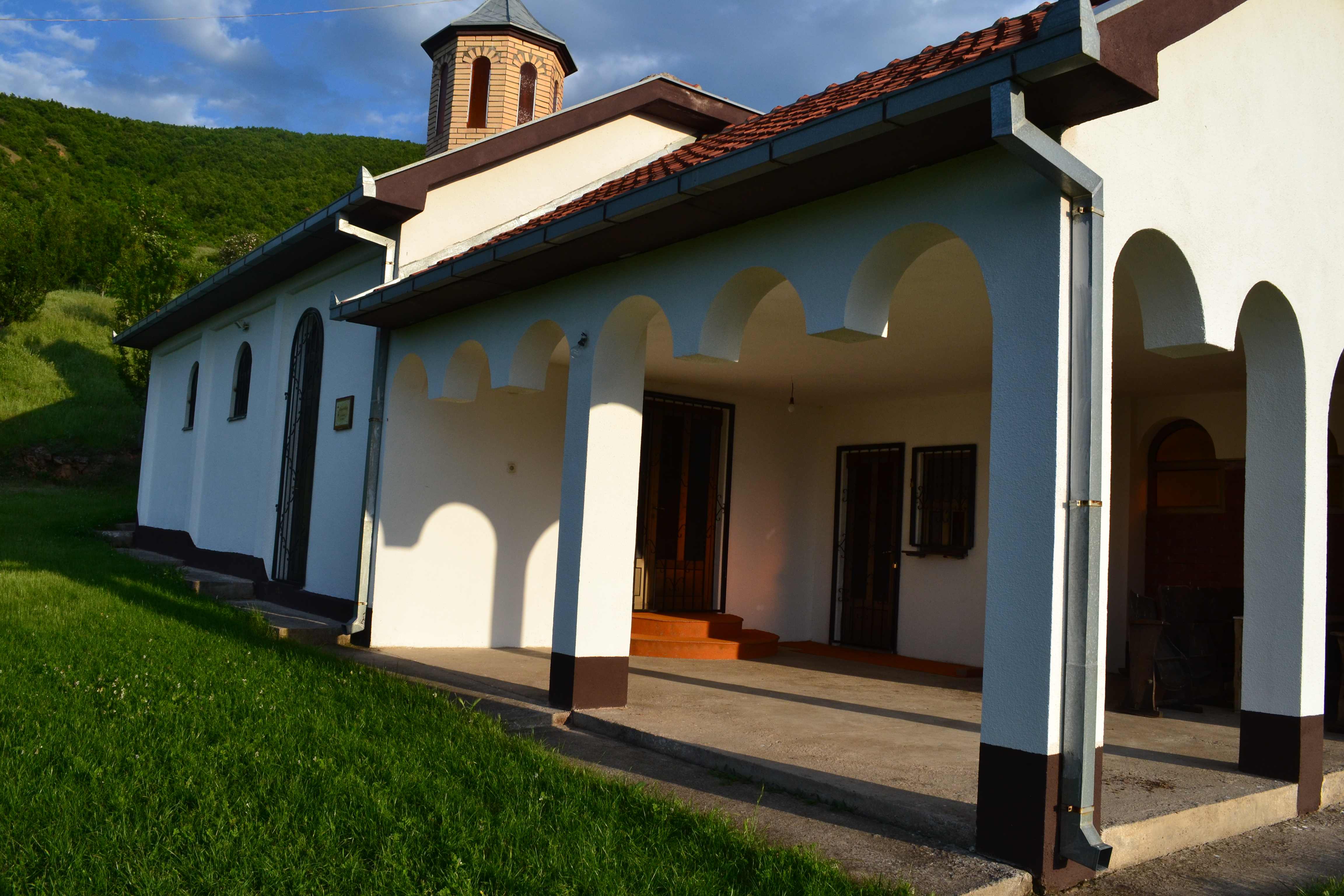 Црква во селото Мородвис